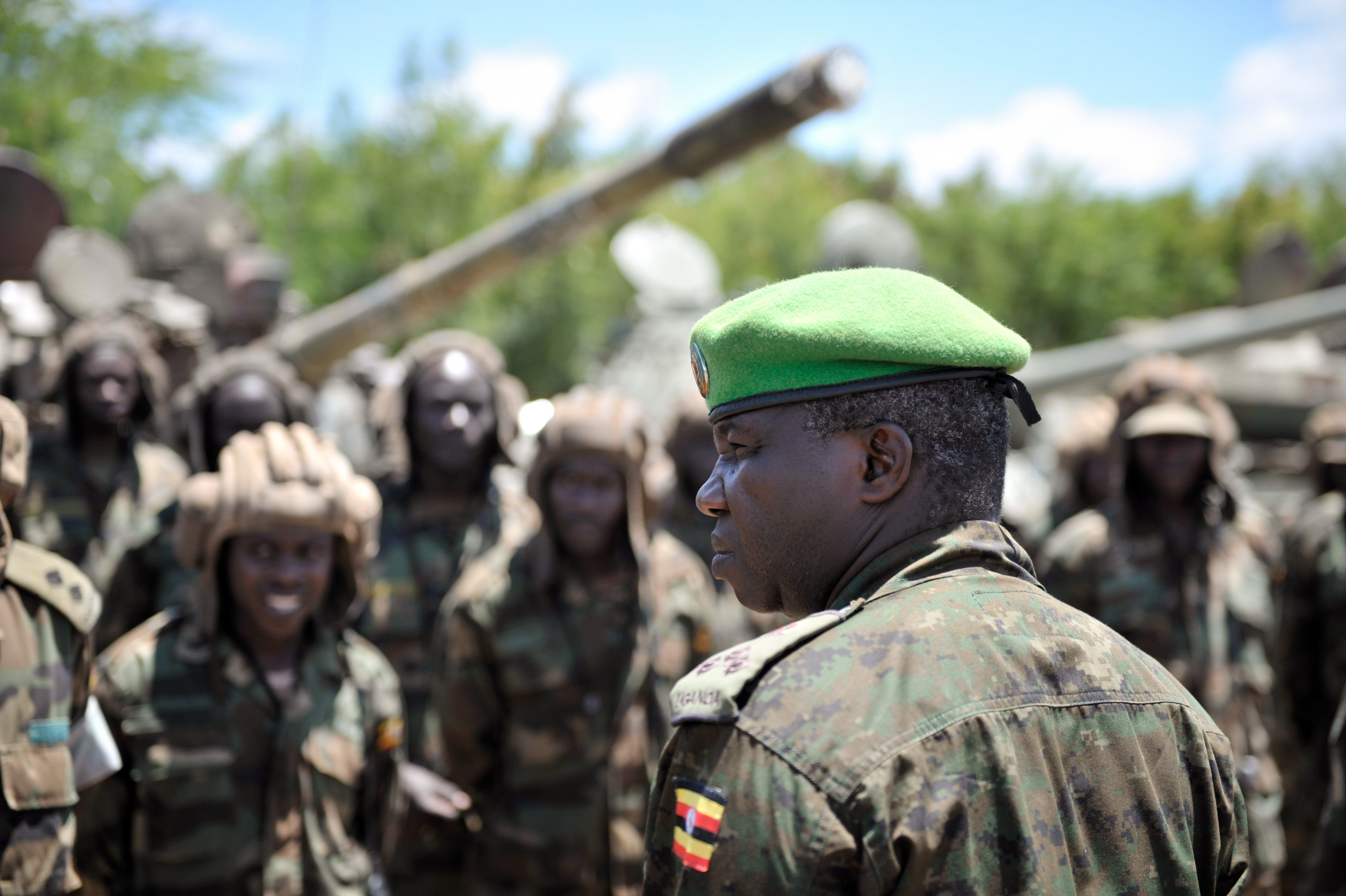 AMISOM's Brig. General, Dick Olum, speaks to his soldiers before the launch of Operation Indian Ocean in the Lower Shabelle region of Somalia on August 29. Operation Indian Ocean aims to liberate several new towns from of the terrorist group Al Shabab in the Lower Shabelle region of Somalia. AMISOM Photo / Tobin Jones